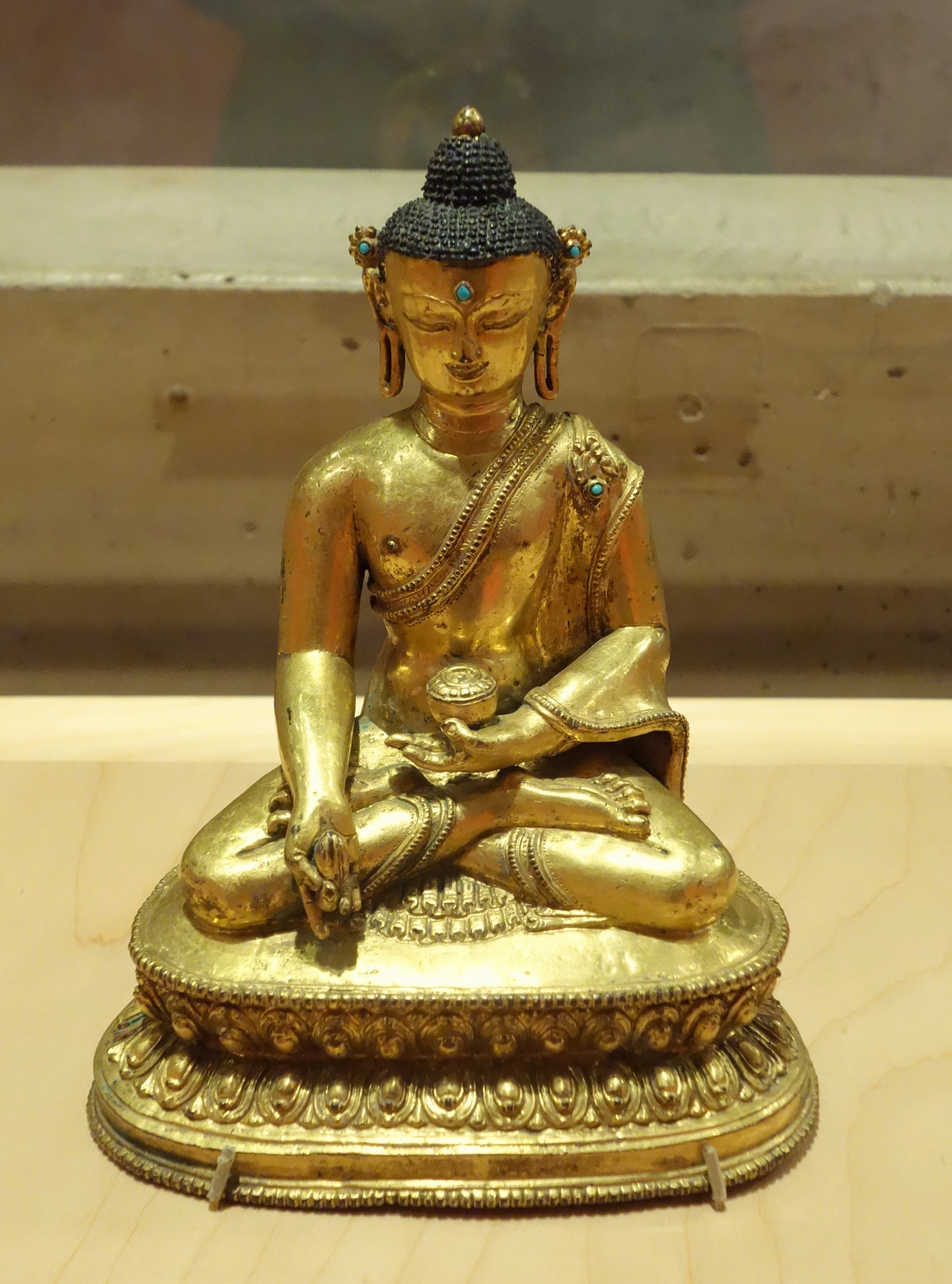 Exhibit in the Berkeley Art Museum and Pacific Film Archive, 2625 Durant Avenue #2250, Berkeley, California, USA. This museum is part of the University of California, Berkeley. This artwork is in the public domain because the artist died more than 70 years ago. Photography of this exhibit was permitted without restriction.